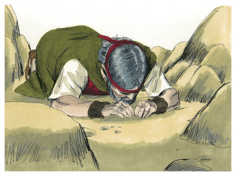 Biblical illustration of Book of Exodus Chapter 33